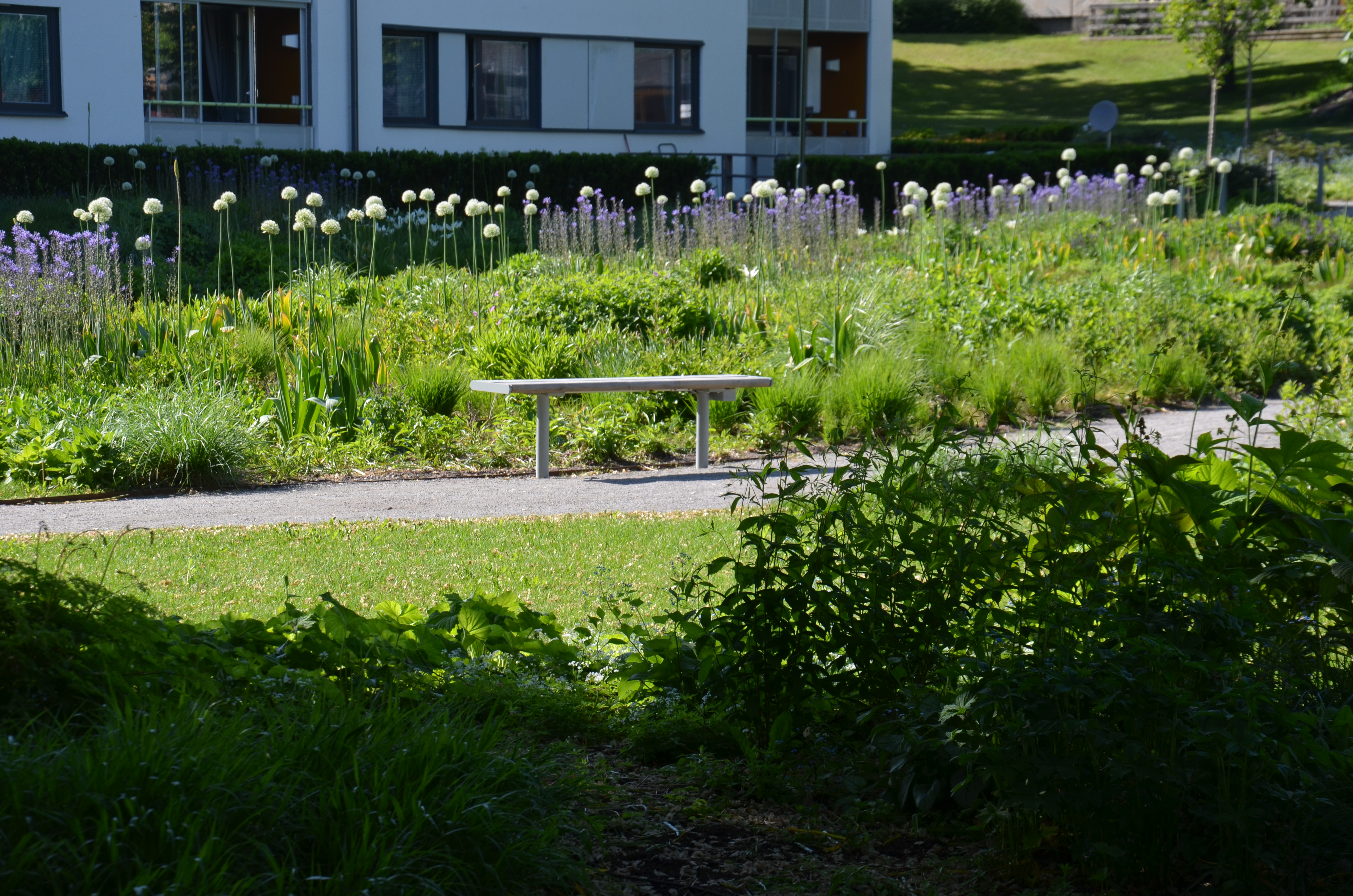 Perennparken at Skärholmen in Stockholm, Sweden. Designed by Piet Oudlof.